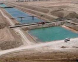 A view of a portion of the Eastern Euphrates Drain.